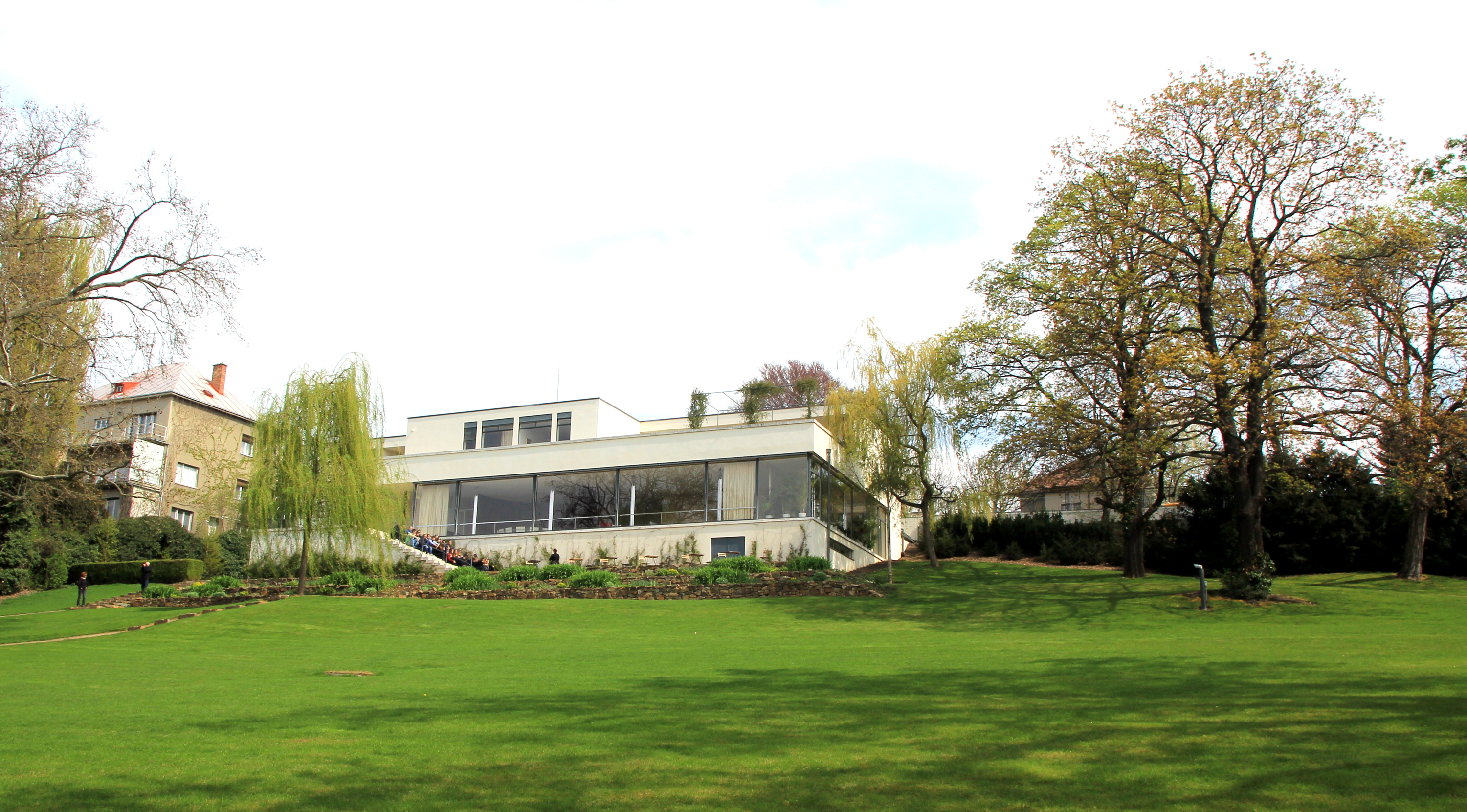 Villa Tugendhat in town Brno, Czech Republic